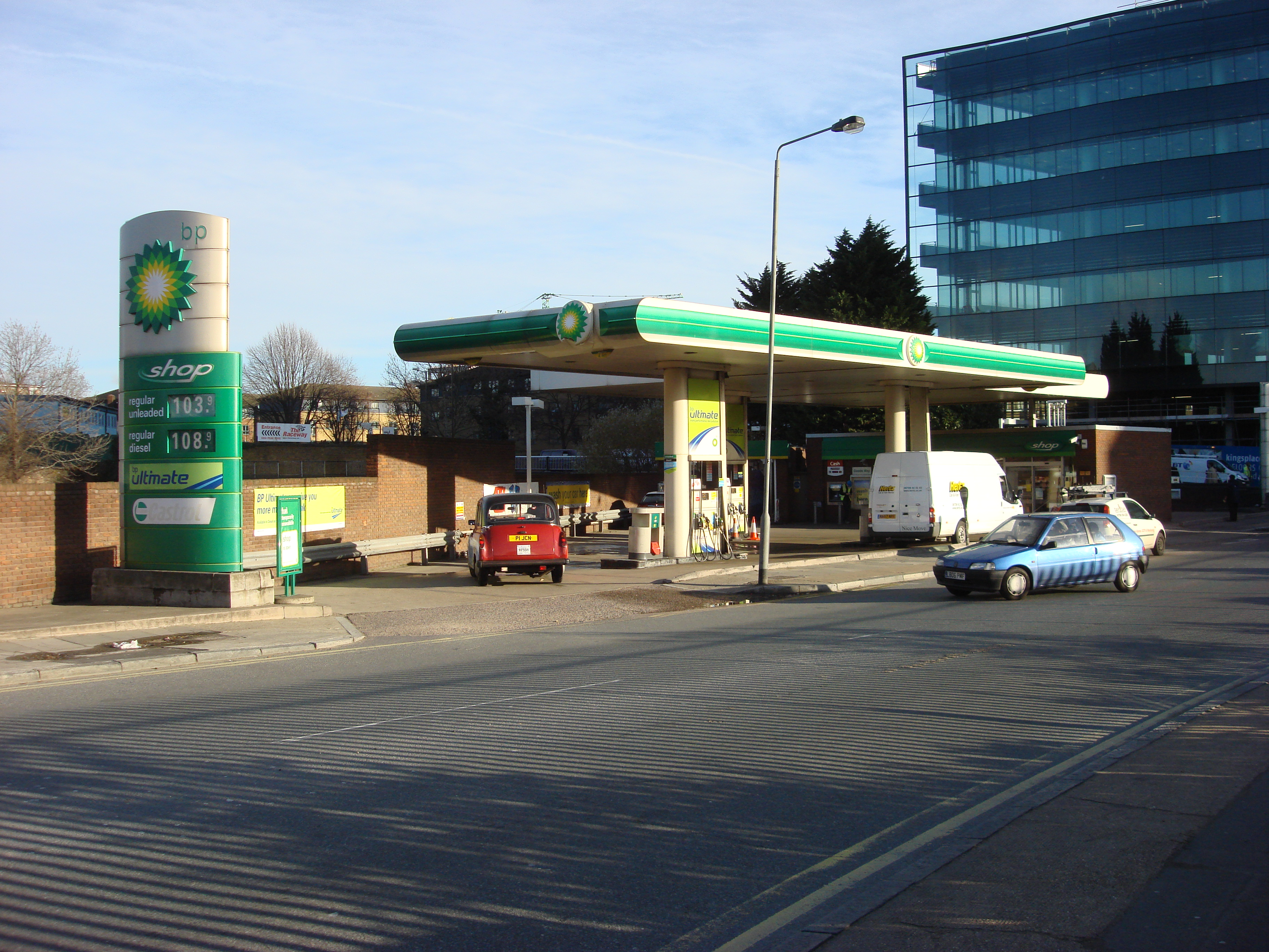 BP Petrol filling station on Goods Way just north of London's Kings Cross Station